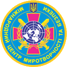 International Peacekeeping and Security center